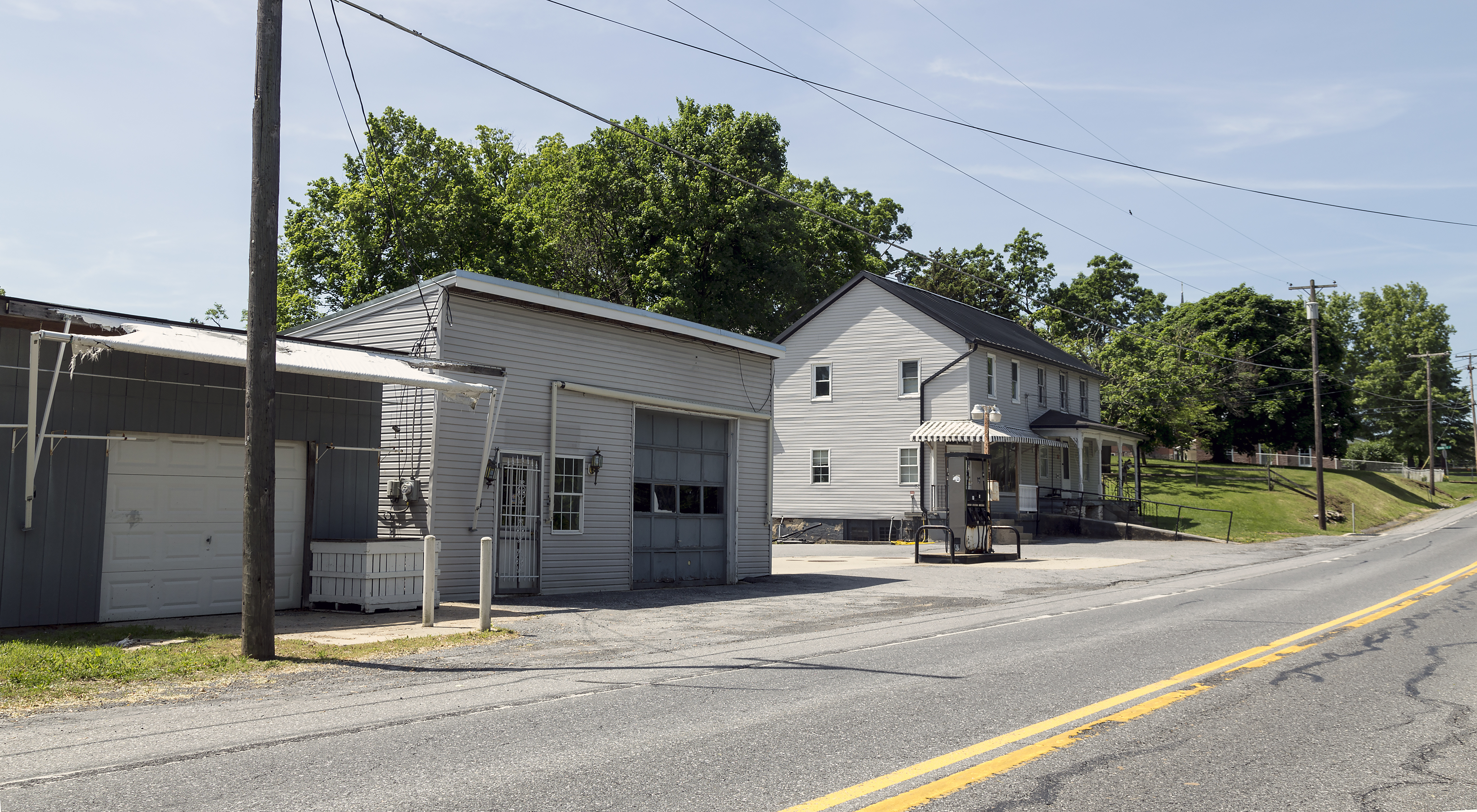 The former Feaga's Store at the center of Feagaville, Maryland, USA